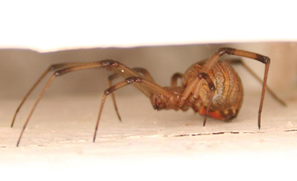 Side view of Brown Widow on St. Kitts.